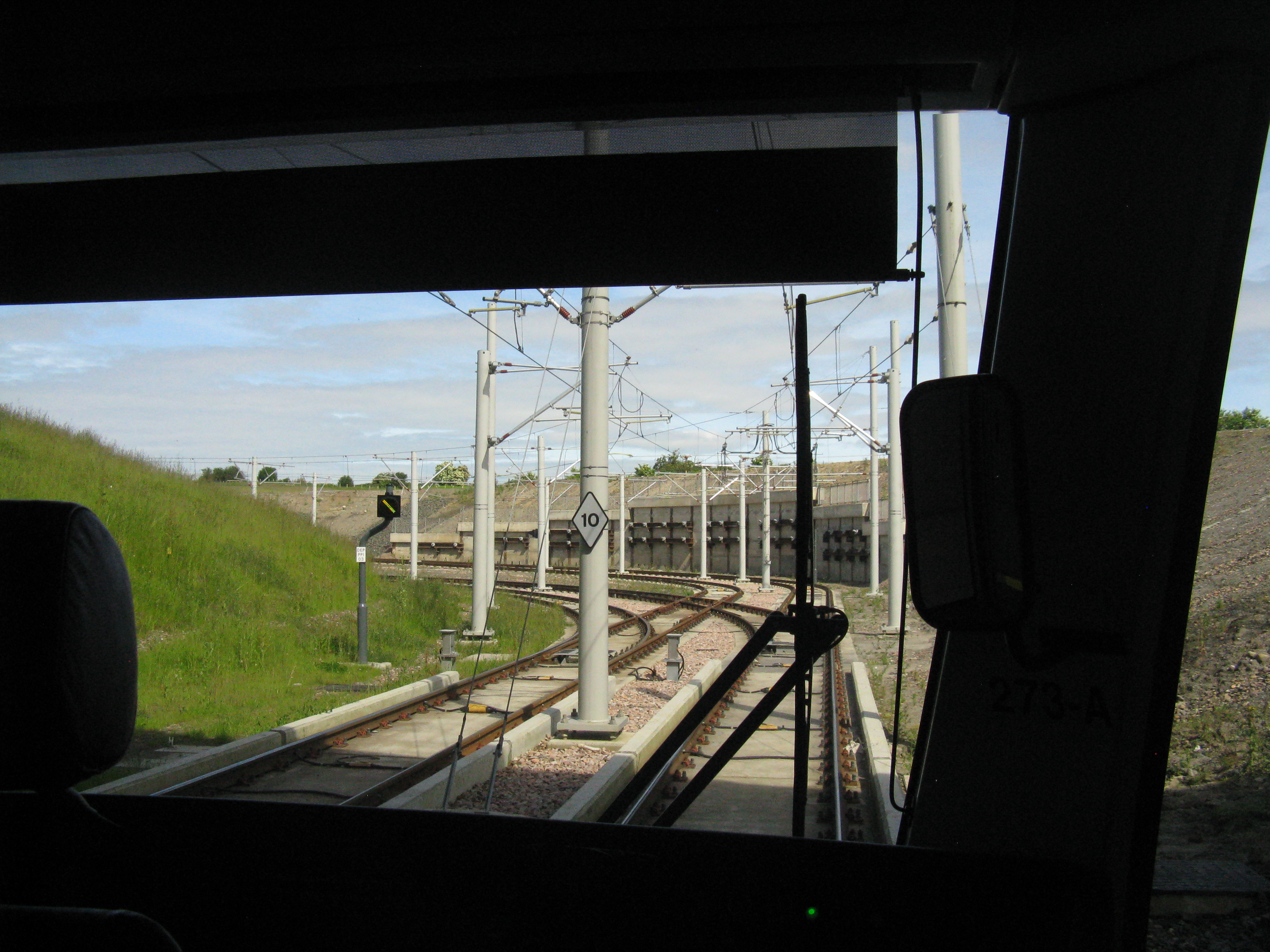 The view from the back of an Edinburgh Trams tram as it heads south underneath the A8 tram underpass. Up ahead is the depot double junction - the left option is the continuation of the mainline, while the right is a double-tracked spur to Gogar Tram Depot. As the signal indicates, it's currently set for the main line. The diamond shaped sign indicates a 10 km/h speed limit here, presumably due to the limited visibility at this tight 90 degree turn.